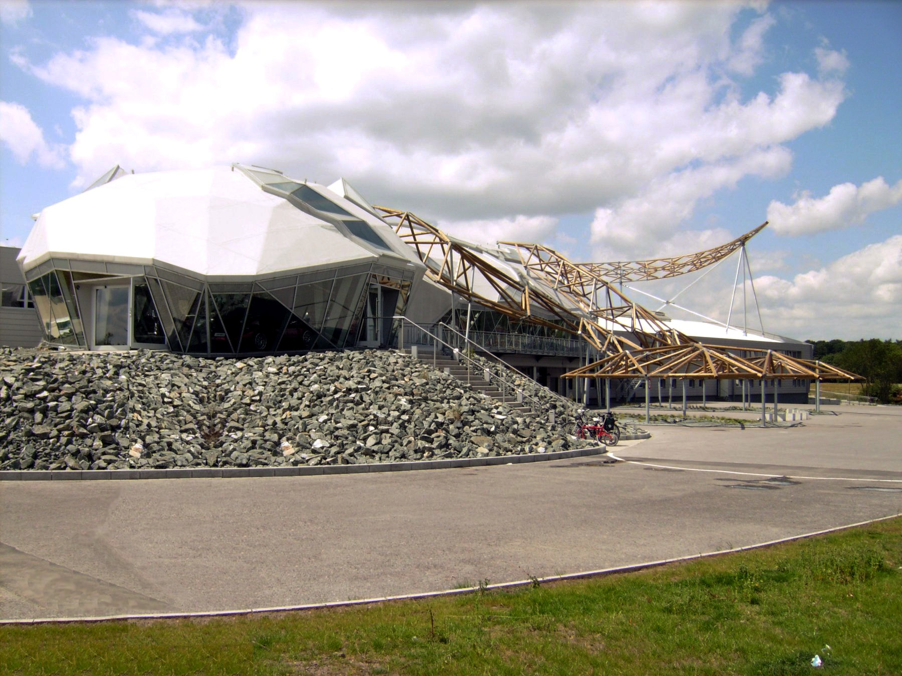 Company building of the Wiesmann GmbH in Dülmen 2008